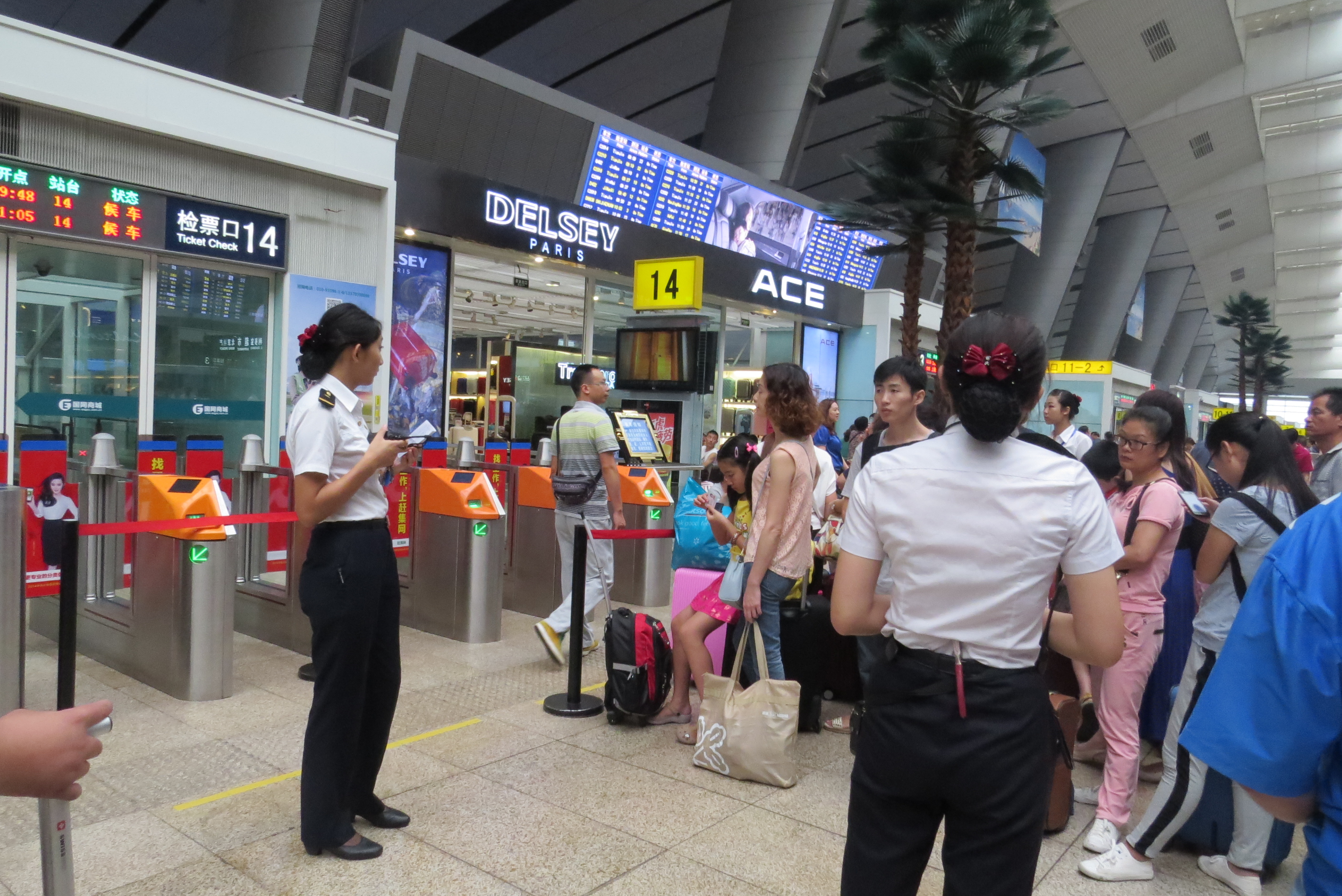 The boarding would start at 9:18.